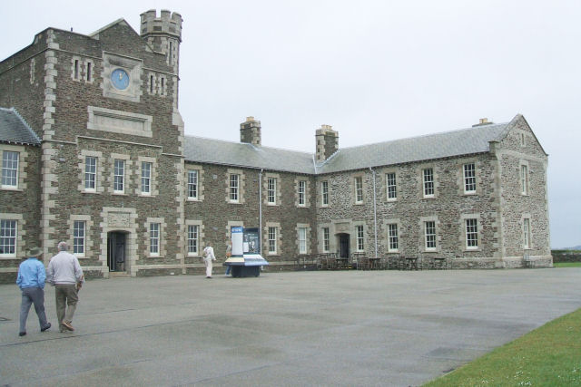 Barracks, Pendennis Castle It's often assumed that castles were part of England's defence system only in the distant past. However, Pendennis Castle was in continuous service as a defence post from its construction under Henry VIII until 1956. These buildings served as barracks in the 20th century.